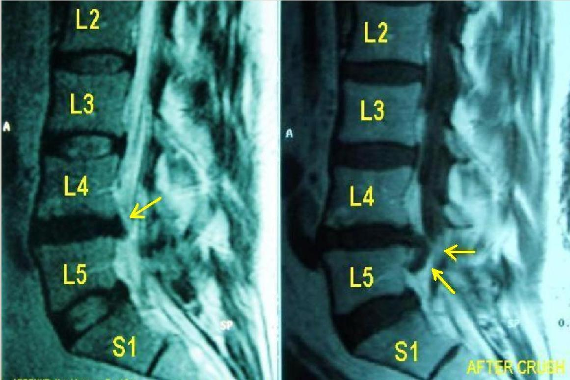 Prolapse and extrusion of disc herniation